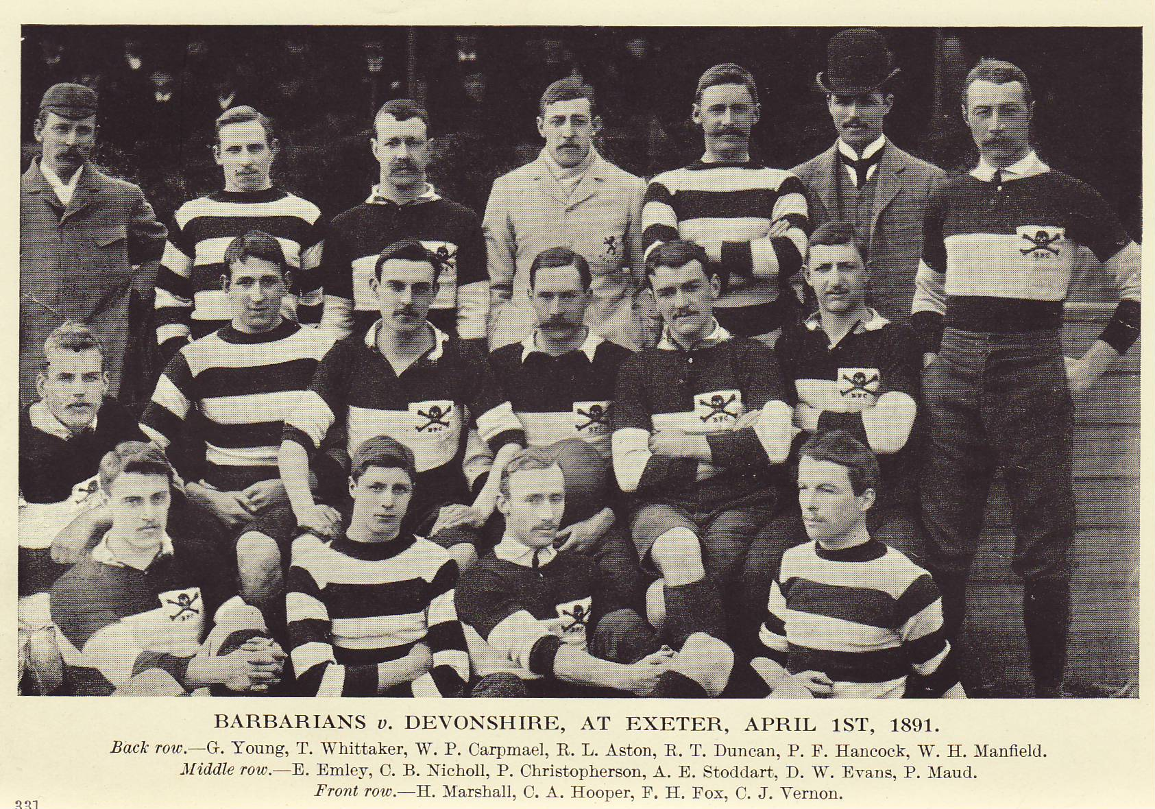 Barbarian F.C. team photo, taken 1st April 1891